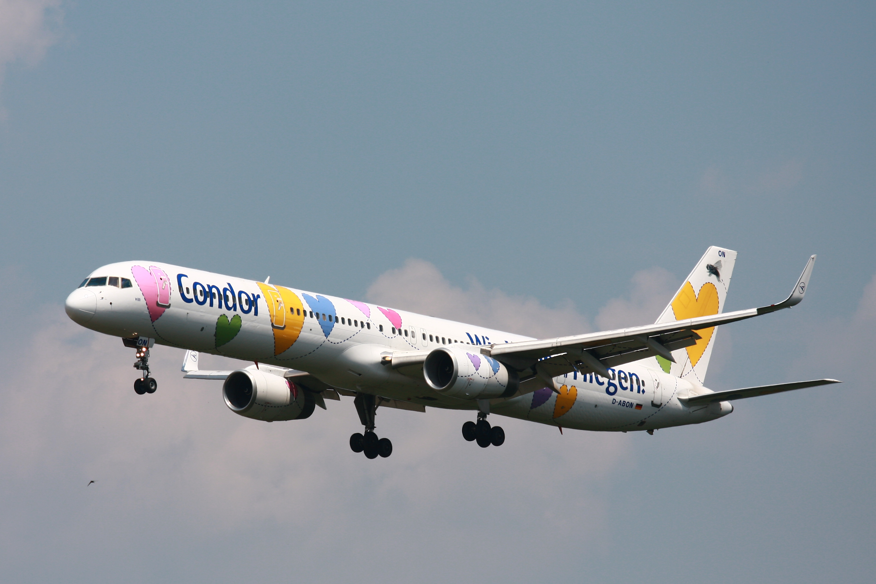 A Boeing 757-300 of Condor with a special painting landing at Frankfurt Airport